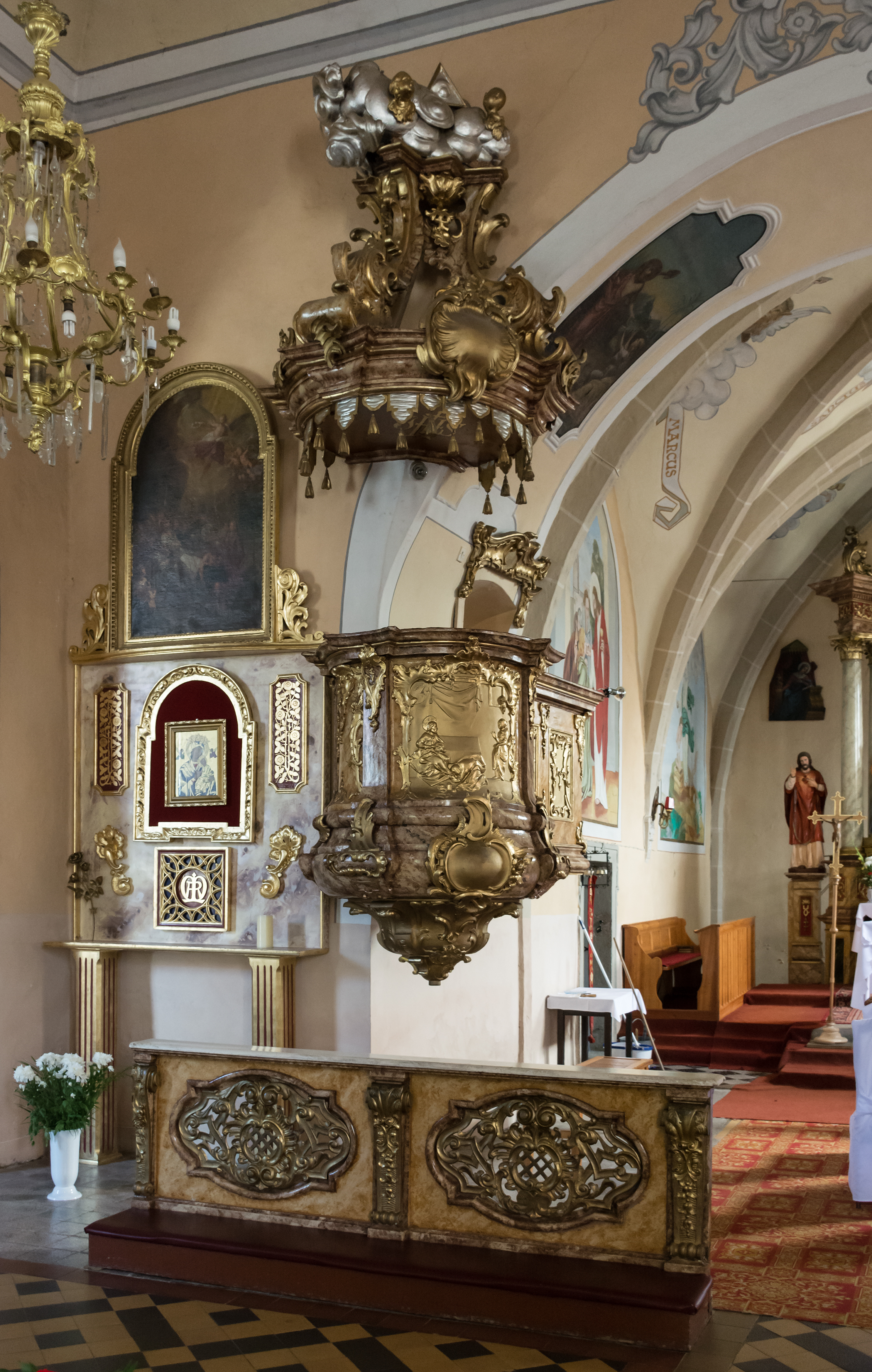 Saint Mary Magdalene Church in Ścinawka Średnia